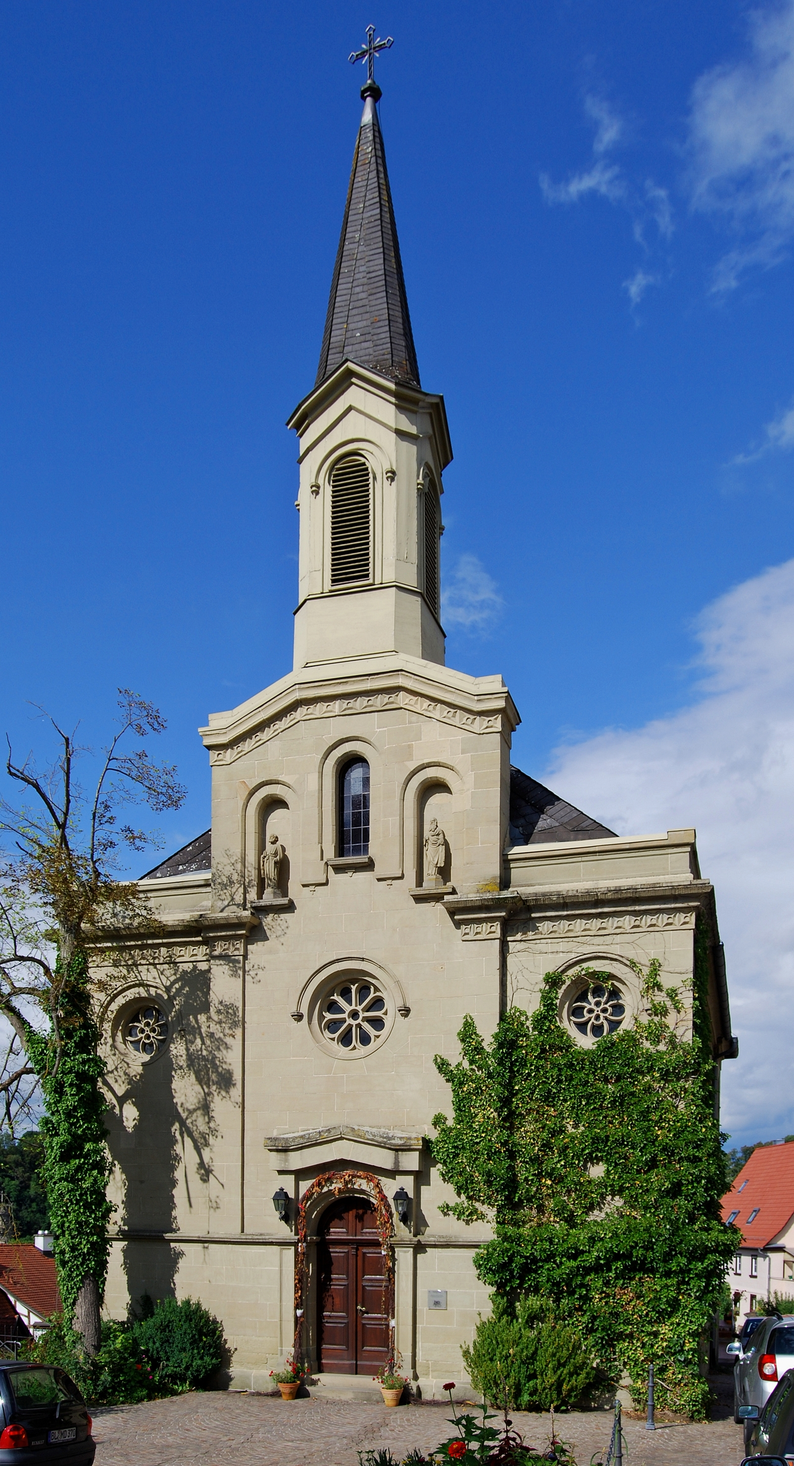 The Protestant church of Haigerloch, Germany.